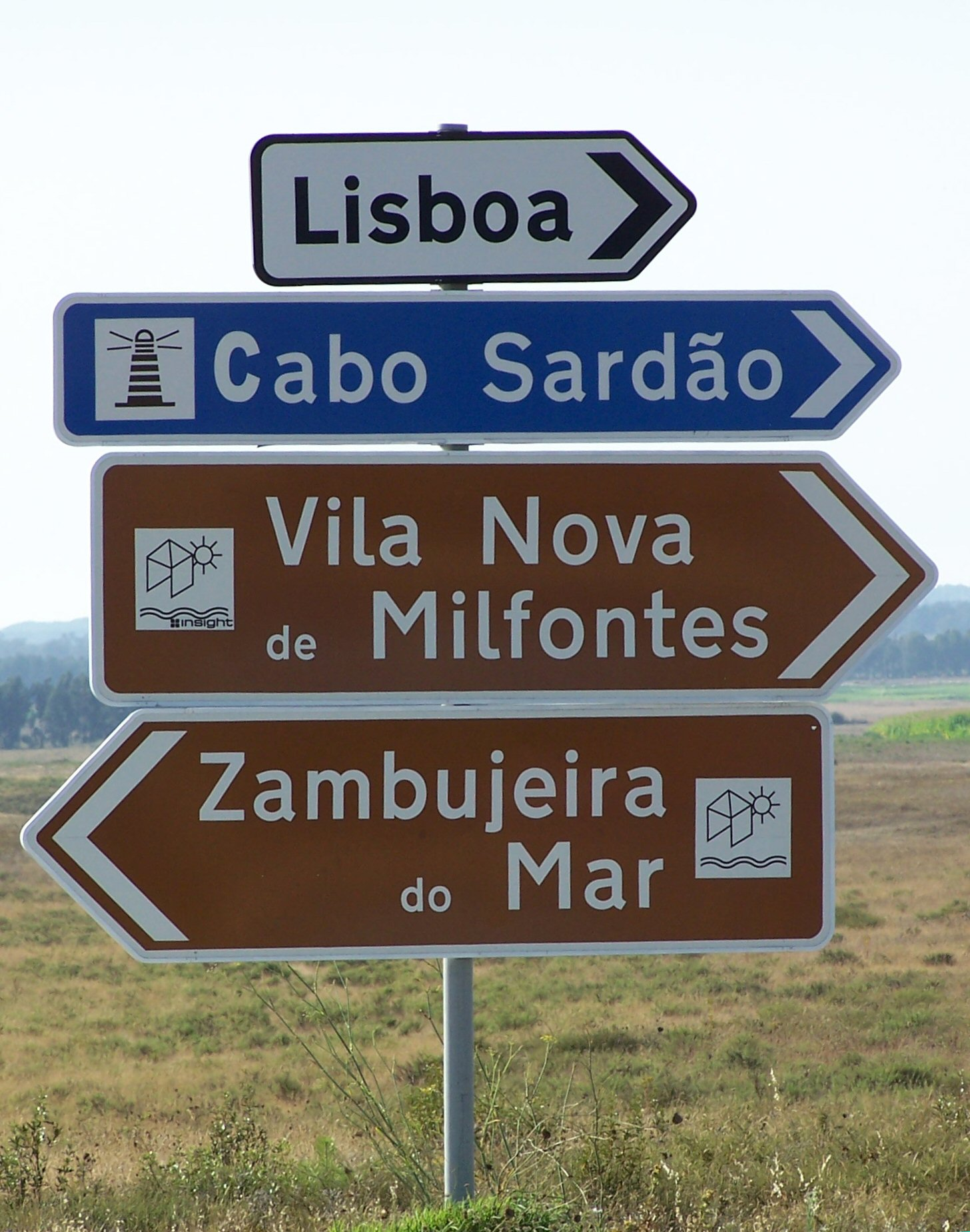 Festival Sudoeste - Sudoeste is a large, four-day music festival that began in 1996 and takes place every August near Zambujeira do Mar, in southern Portugal. The festival has three stages which play different music simultaneously.